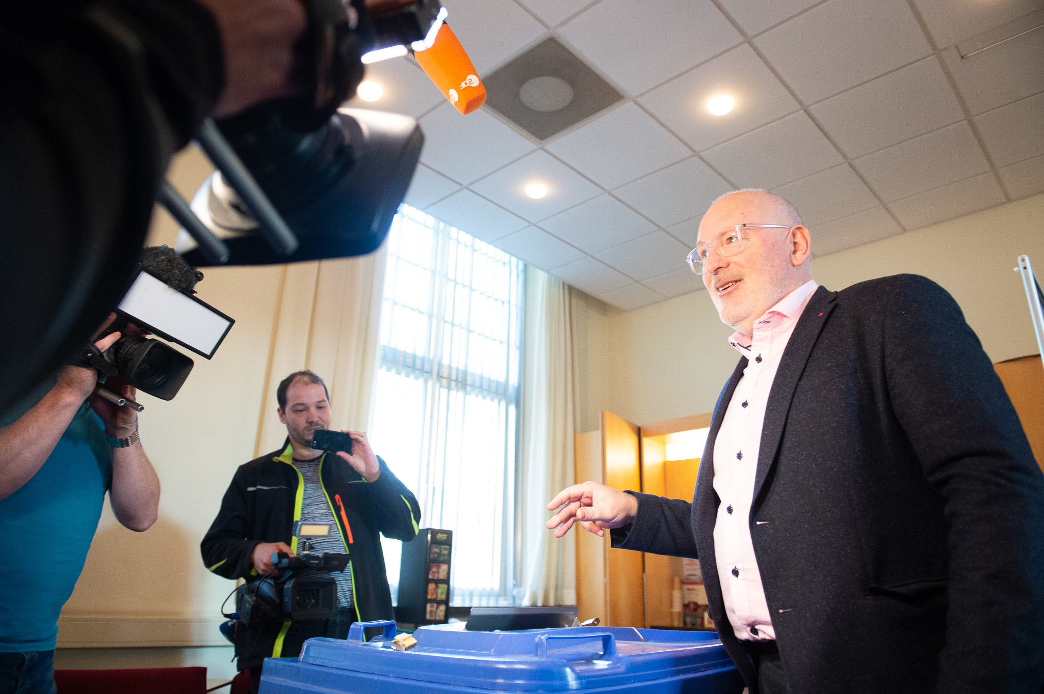 Find more pictures at Copyright: © European Union 2019 - Source : EP